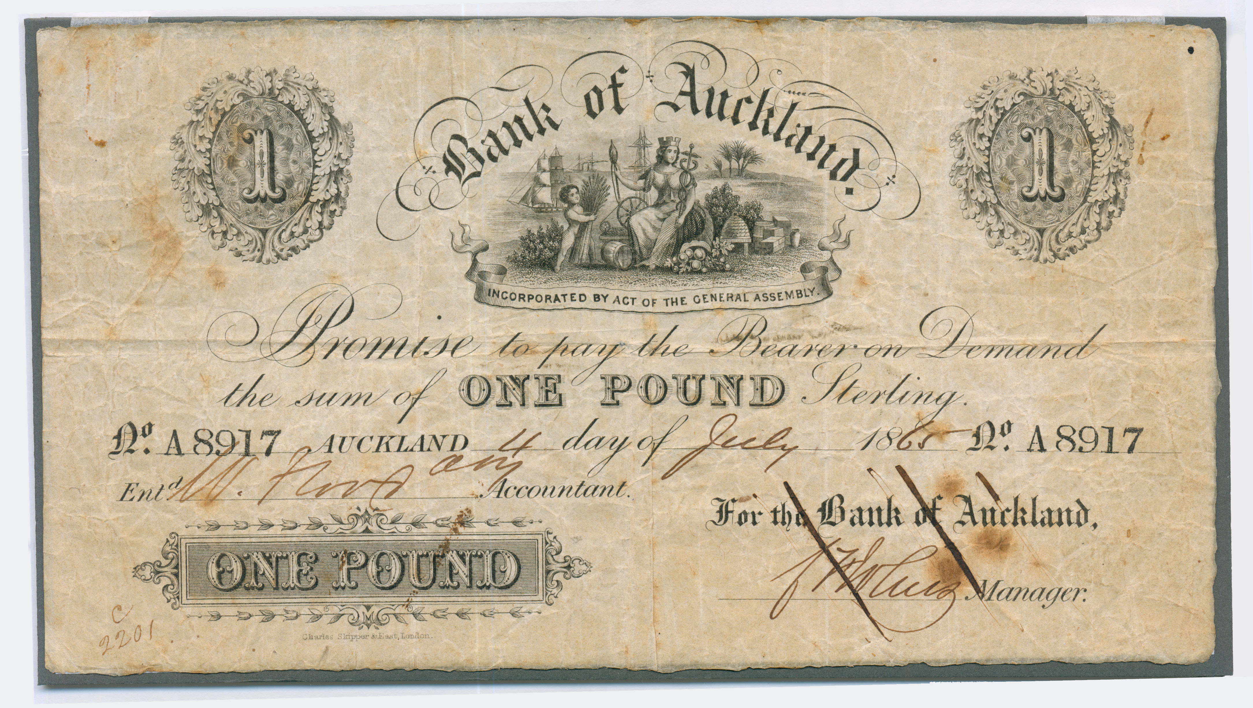 Bank of Auckland One Pound Note; serial No A8917, issued Auckland, 4 day of July 1865 black frame; printed on paper; uniface; marked lower left corner